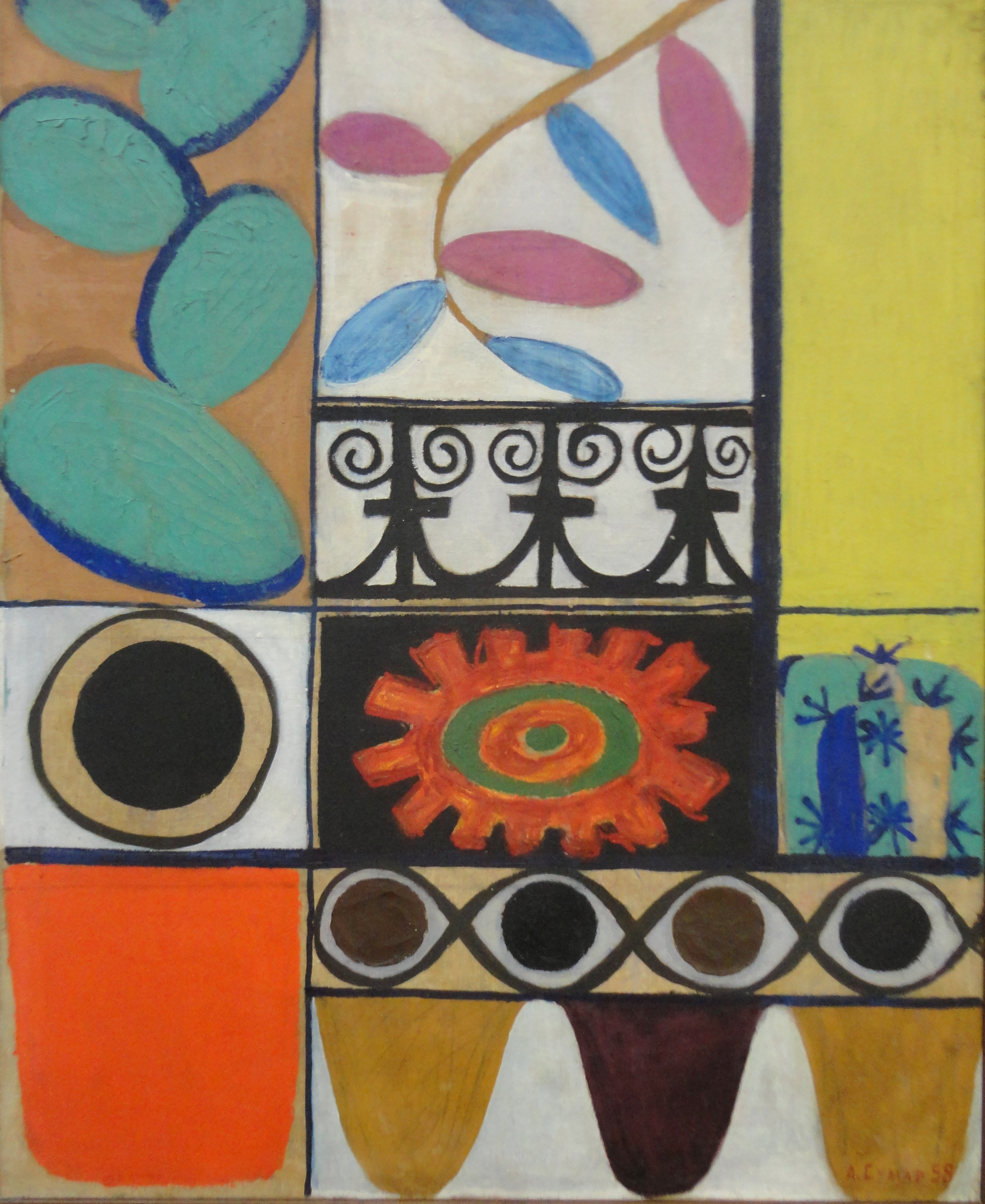 Balkony.Paingting by artist A.Sumar 1958